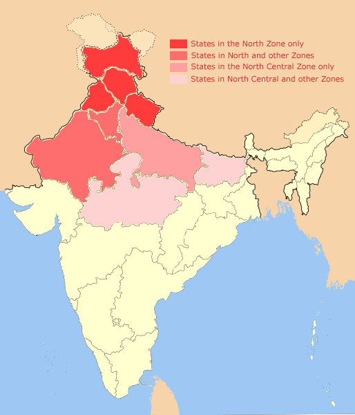 Adapted from 'North India Zonal Map 1.png' and updated to represent new Govt of India definitions as of July 2013. Corrected to display the right color for Uttarakhand state.